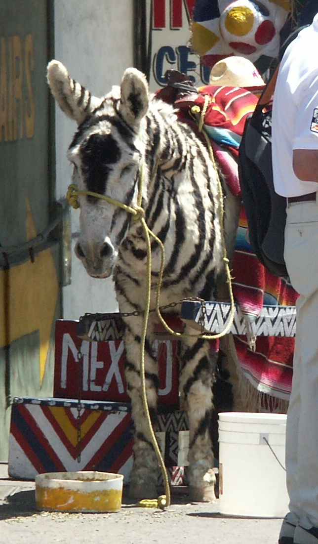 A "Tijuana Zebra" - a donkey that has been painted with stripes so that it looks like a zebra; photograph taken in Tijuana, Mexico